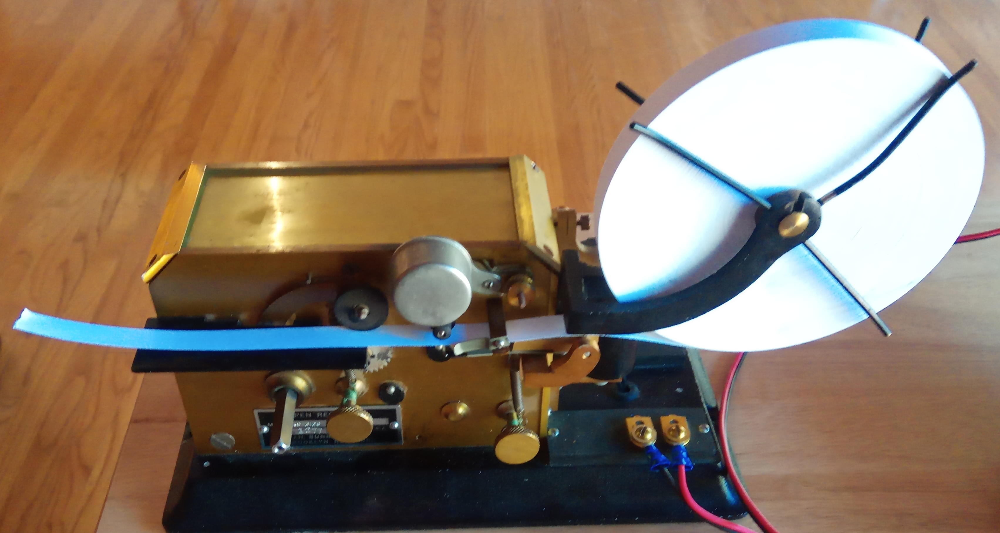 Pen register. Manufactured by J. H. Bunnell & Co, Brooklyn, New York. Mid 20th century. Model KS-3106, serial number 11277. 150Ω coil.